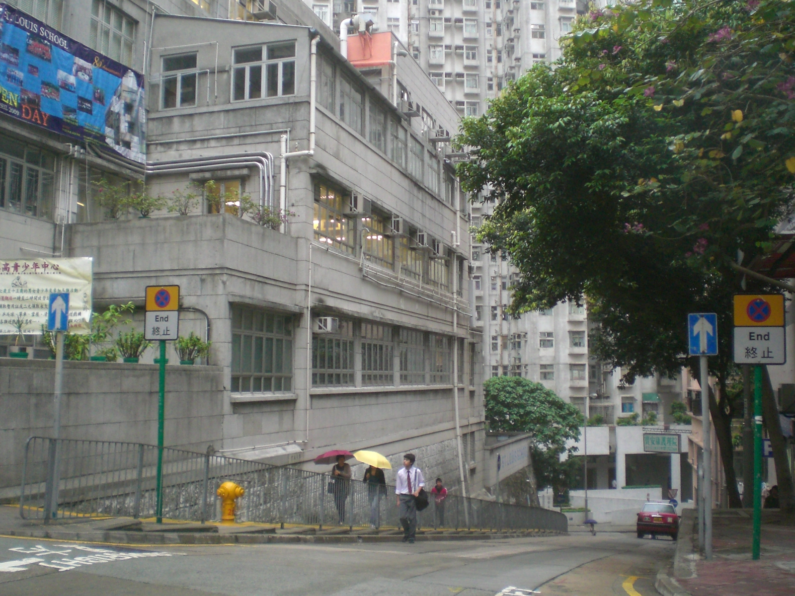 西環 聖類斯中學 廣豐里